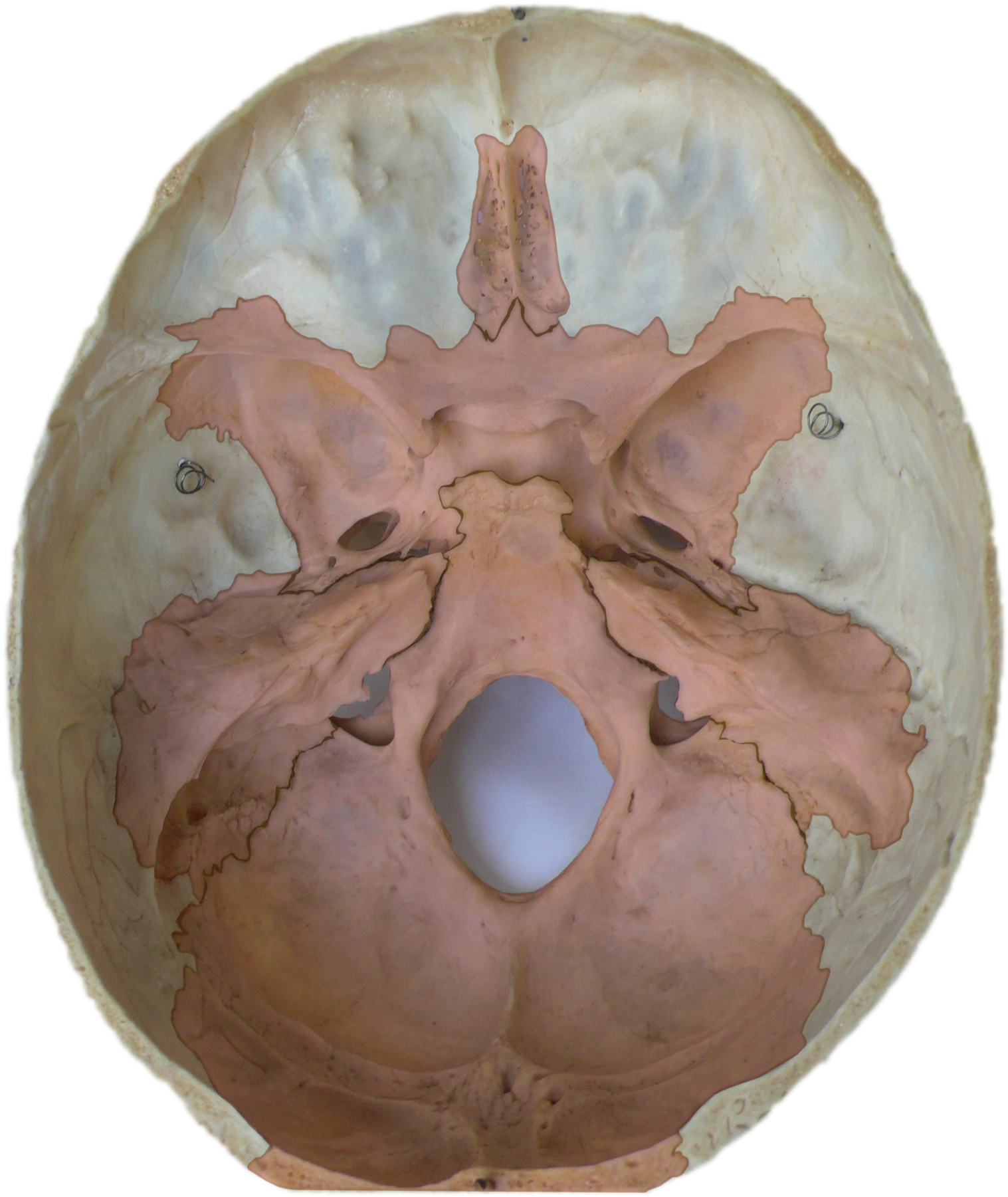 The ossified endocranium of a human skull. Endocranial elements coloured pink, suture lines have been exaggerated for clarity. Based on Kent & Miller (1996): Comparative Anatomy of the Vertebrates, figure 9.6, p 160.